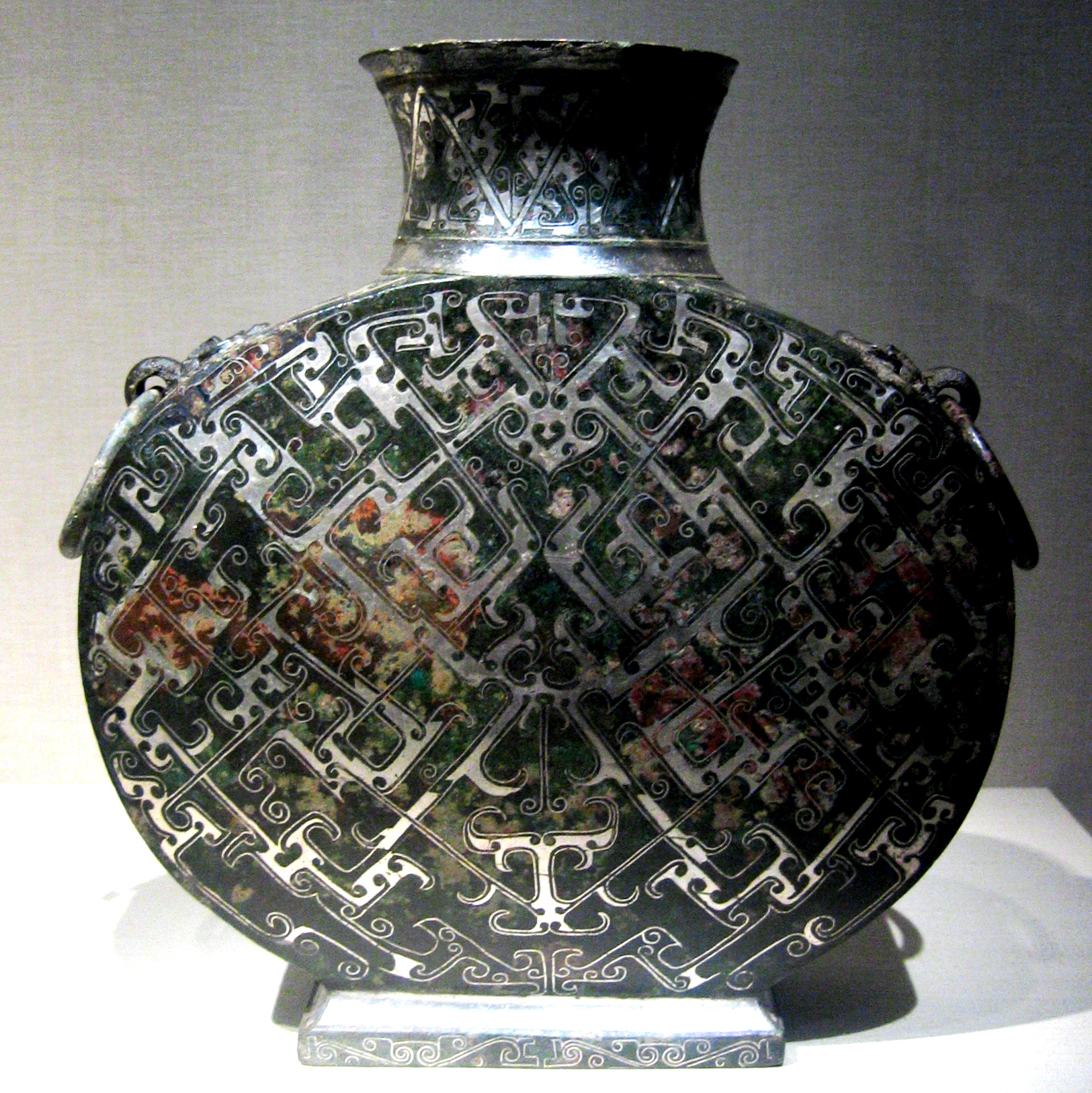 PILGRIM FLASK (BIAN HU) Ca. 3rd century B.C.E. Eastern Zhou dynasty, China from the Warring States period. It was likely made at Hunan or Hebei province. Bronze inlaid with silver H: 31.3 W: 30.5 D: 11.7 cm. Gift of Charles Lang Freer, F1915.103a-b (Freer Gallery of Art, Smithsonian Institute)